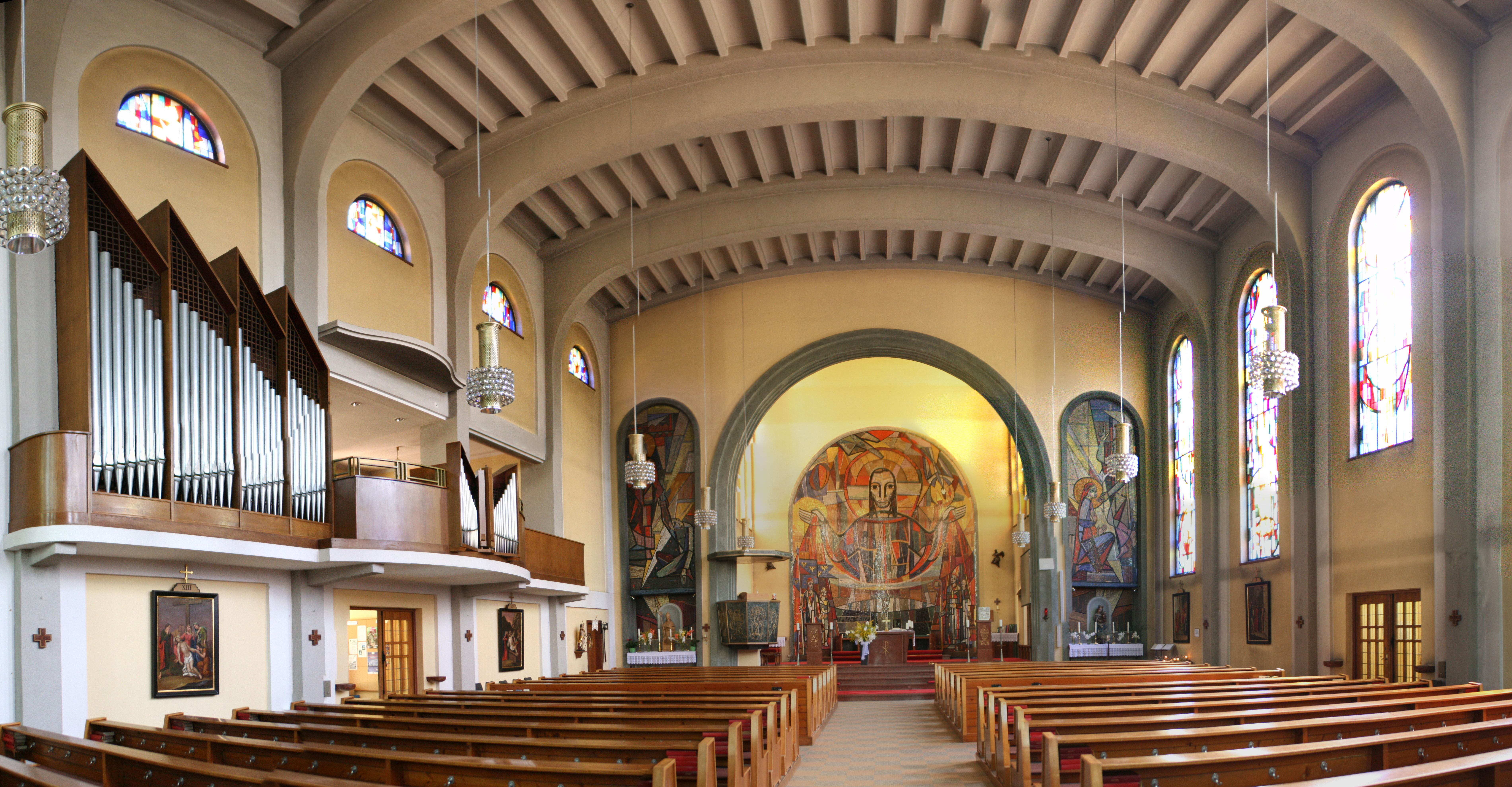 the church of wieselburg